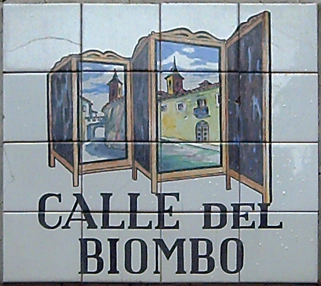 Sign of Calle del Biombo (literally "Folding-Screen Street") in Centro district in Madrid (Spain).